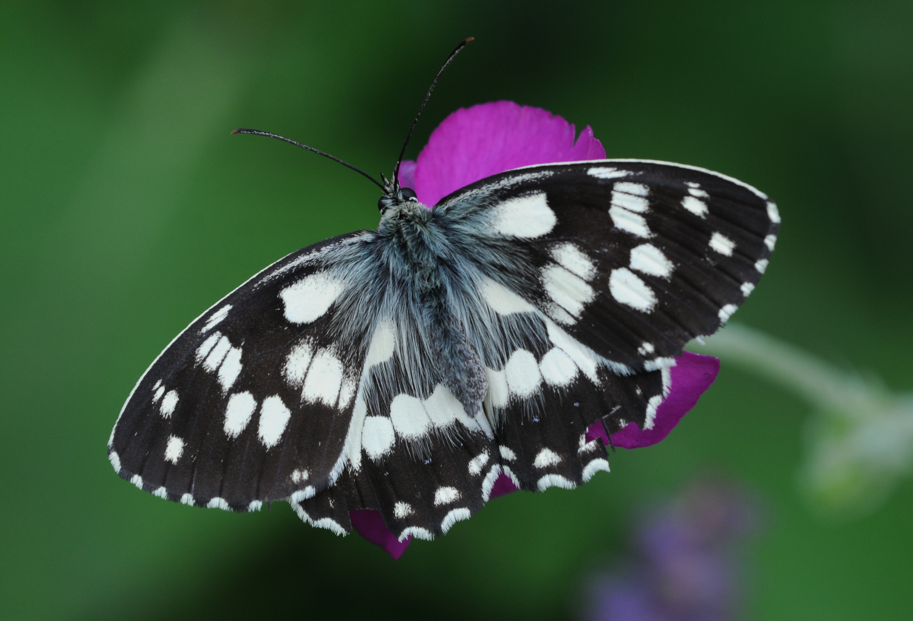 Wing upperside view of a Marbled White (Melanargia galathea). Dereköy, Kırklareli - Turkey.